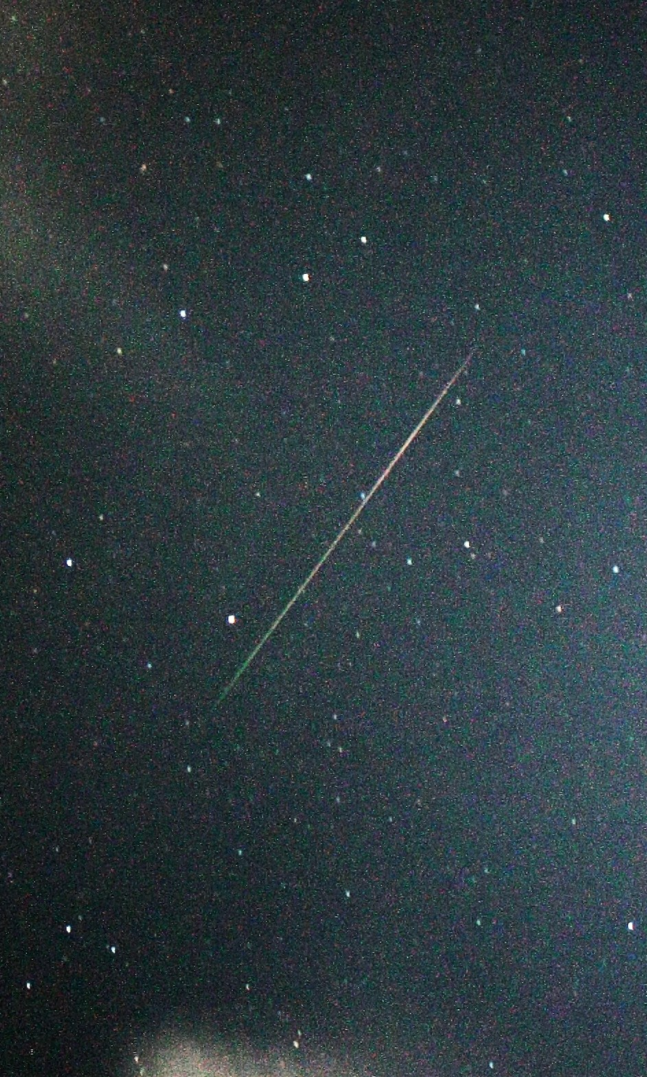 Perseid Meteor. Cropped enhanced version. Original